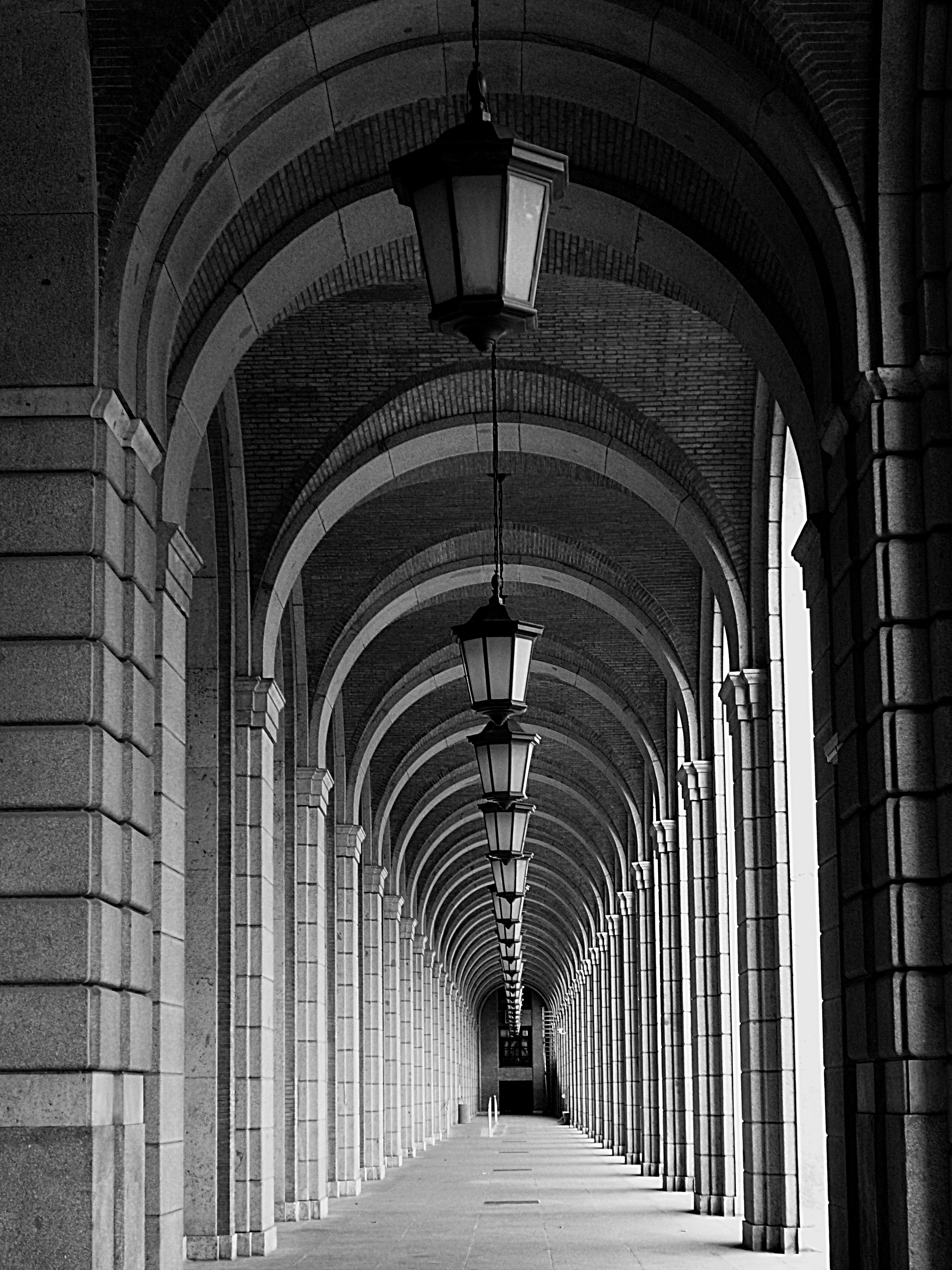 Arcade at Nuevos Ministerios in Madrid (Spain).